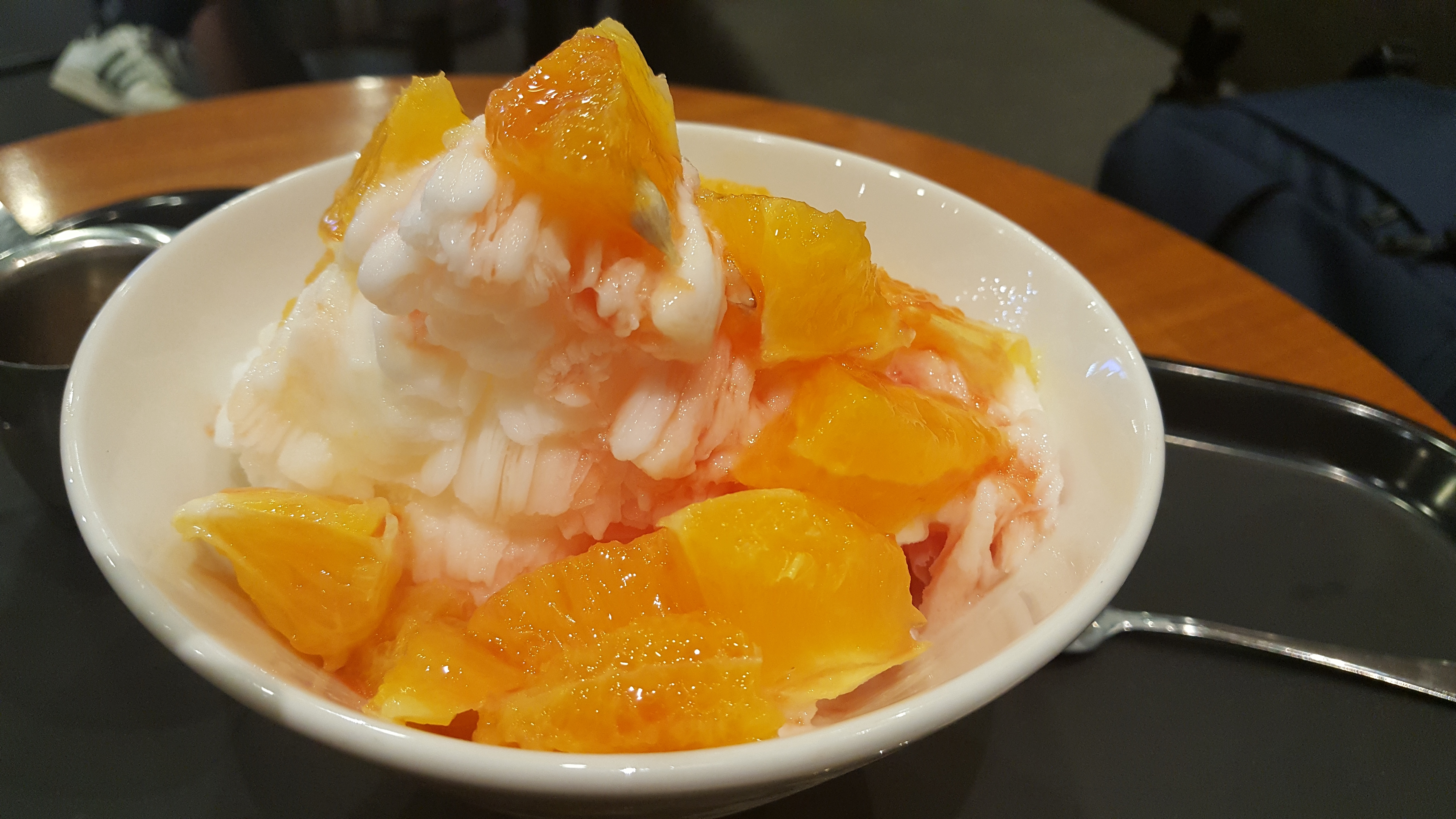 Orange bingsu with grapefruit dressing